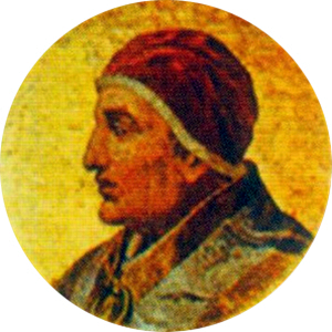 Portait of Pope Pius III in the Basilica of Saint Paul Outside the Walls, Rome